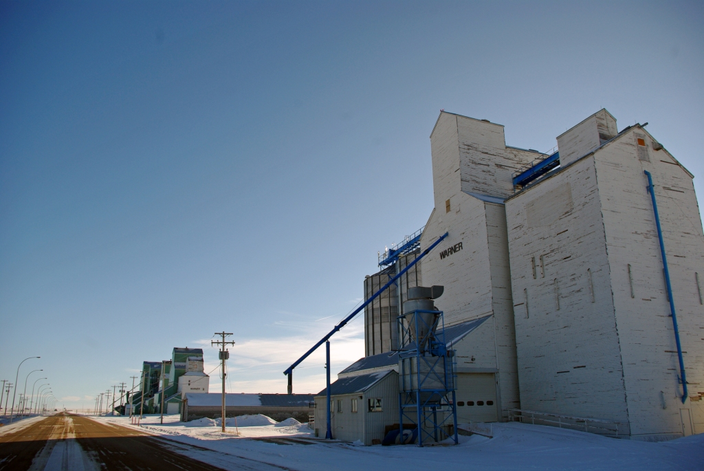 Warner elevator row alongside the Canadian Pacific Railway on the east entrance to Warner, Alberta, Canada.